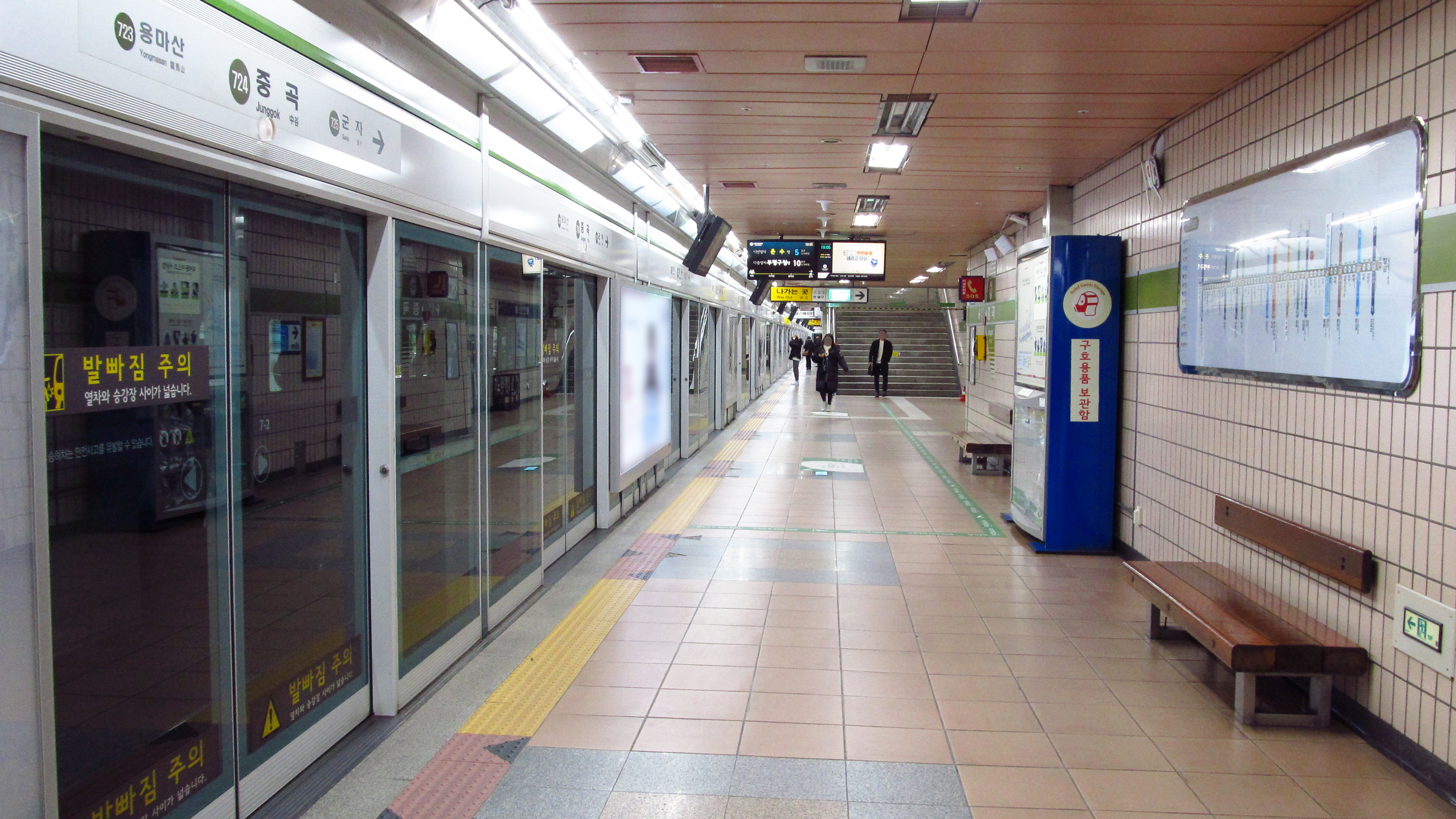 The platform at Junggok Station on Seoul Subway Line 7 in Gwangjin-gu, Seoul, Republic of Korea(South Korea)